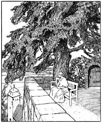 Illustration by Otto Ubbelohde to the fairy tale The True Bride